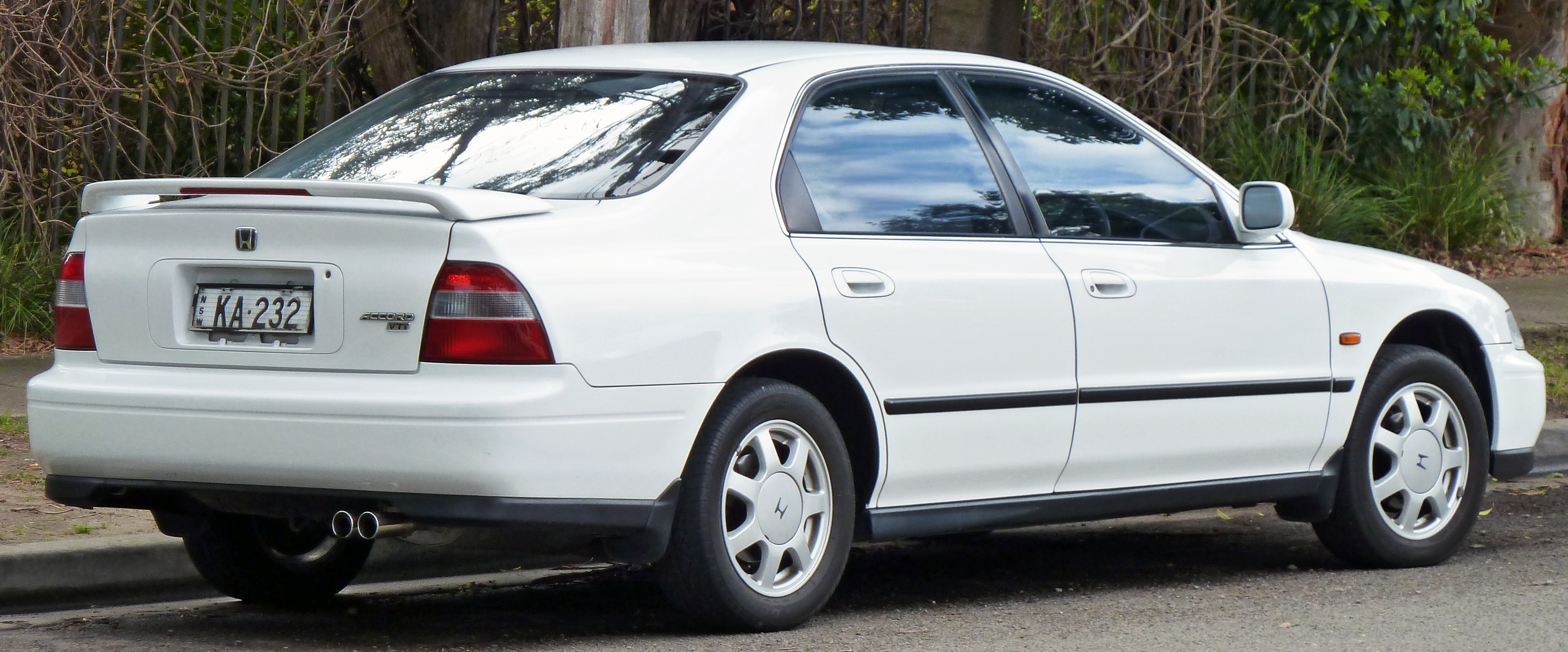 1993–1995 Honda Accord VTi sedan. Photographed in Gymea, New South Wales, Australia.